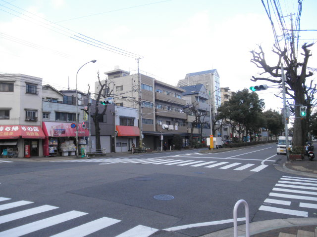 Kamitsutsuidori Chuo-ku Kobecity Hyogopref